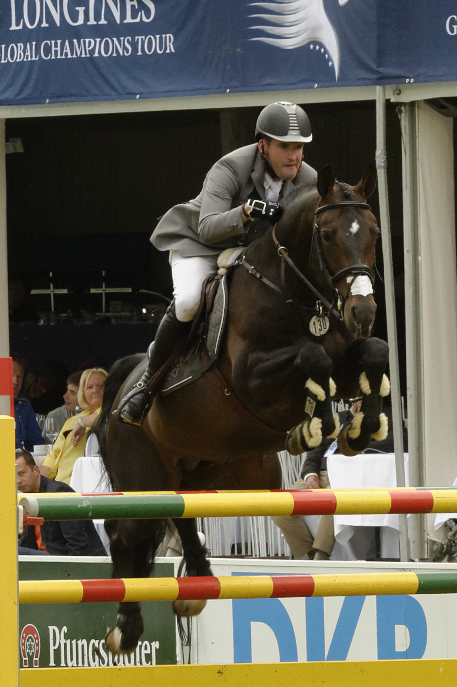 Internationales Pfingstturnier Wiesbaden 2013 The making of this document was supported by the Community-Budget of Wikimedia Germany.